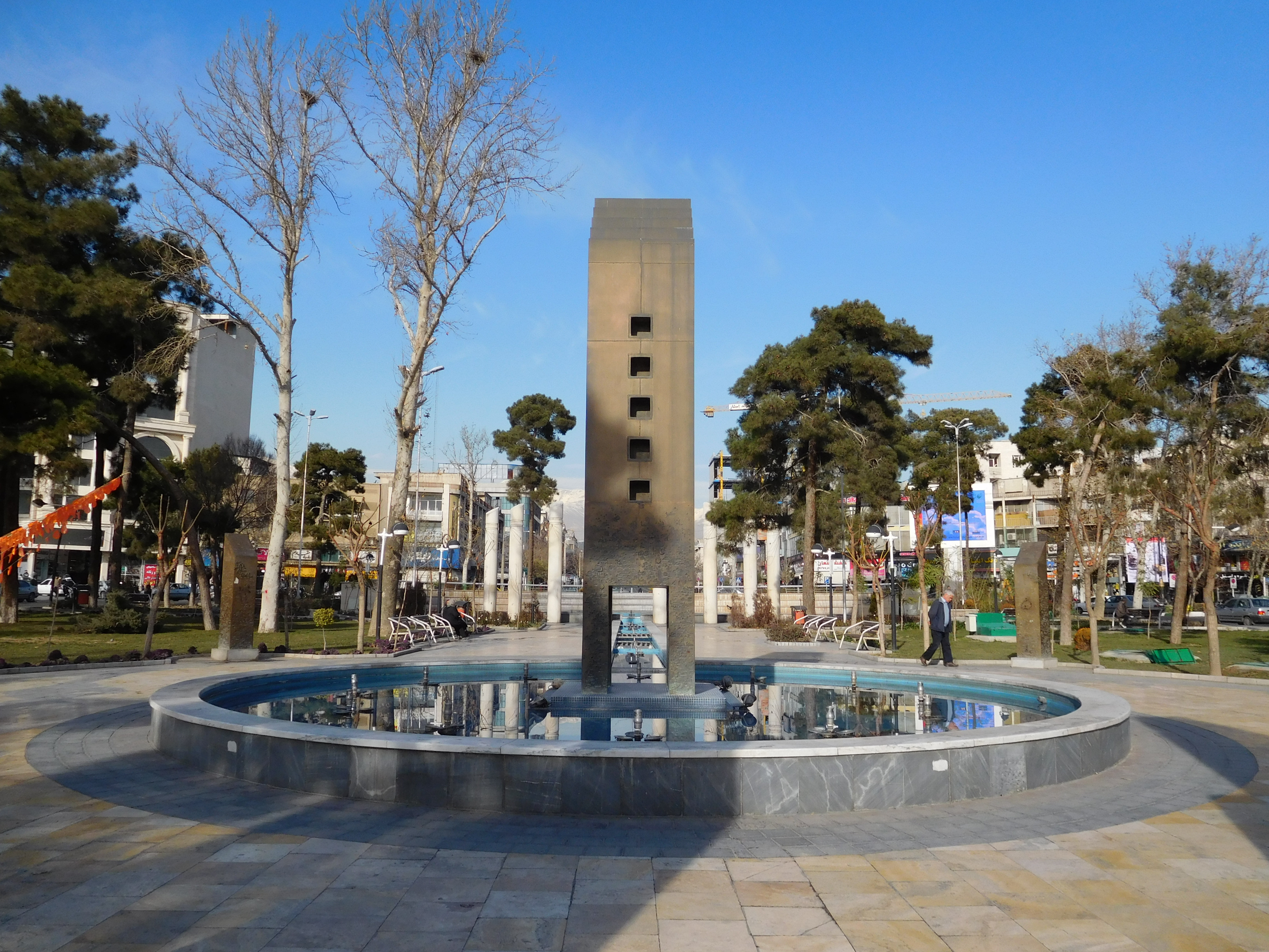 Haft Hoz